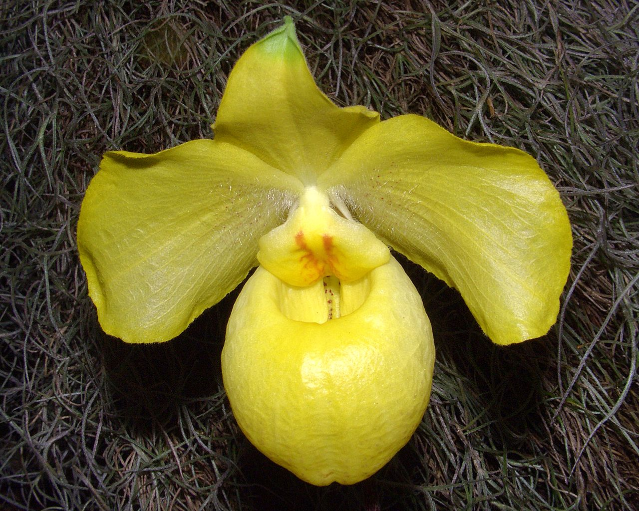 Paphiopedilum armeniacum - flower